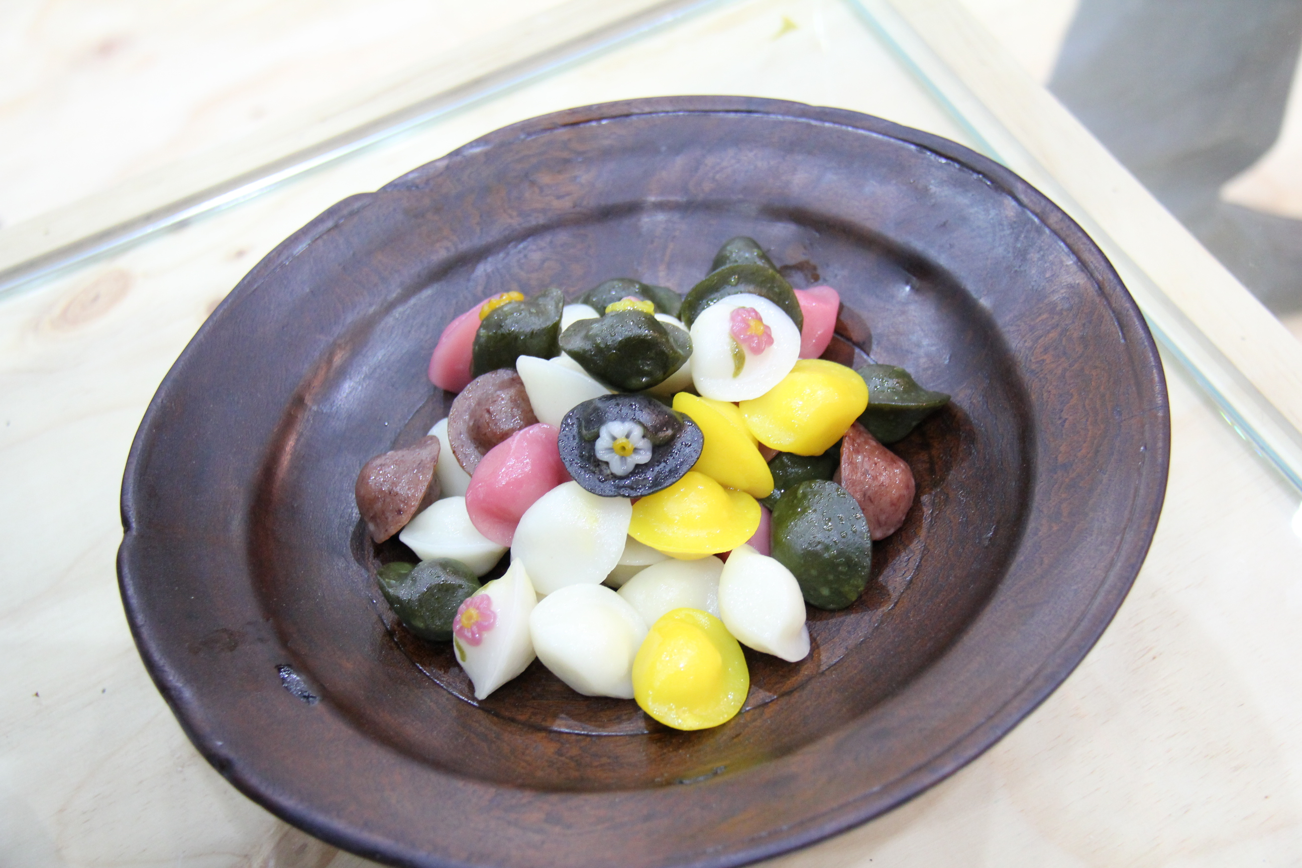 tteok, Korean rice cake